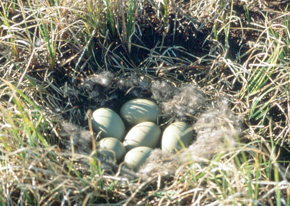 Spectacled Eider (Somateria fischeri) nest.